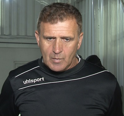 Former Bosnian footballer and now coach Bruno Akrapovic